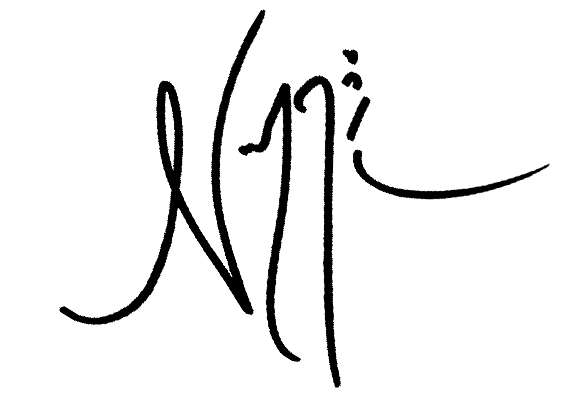 Signature of American singer Normani